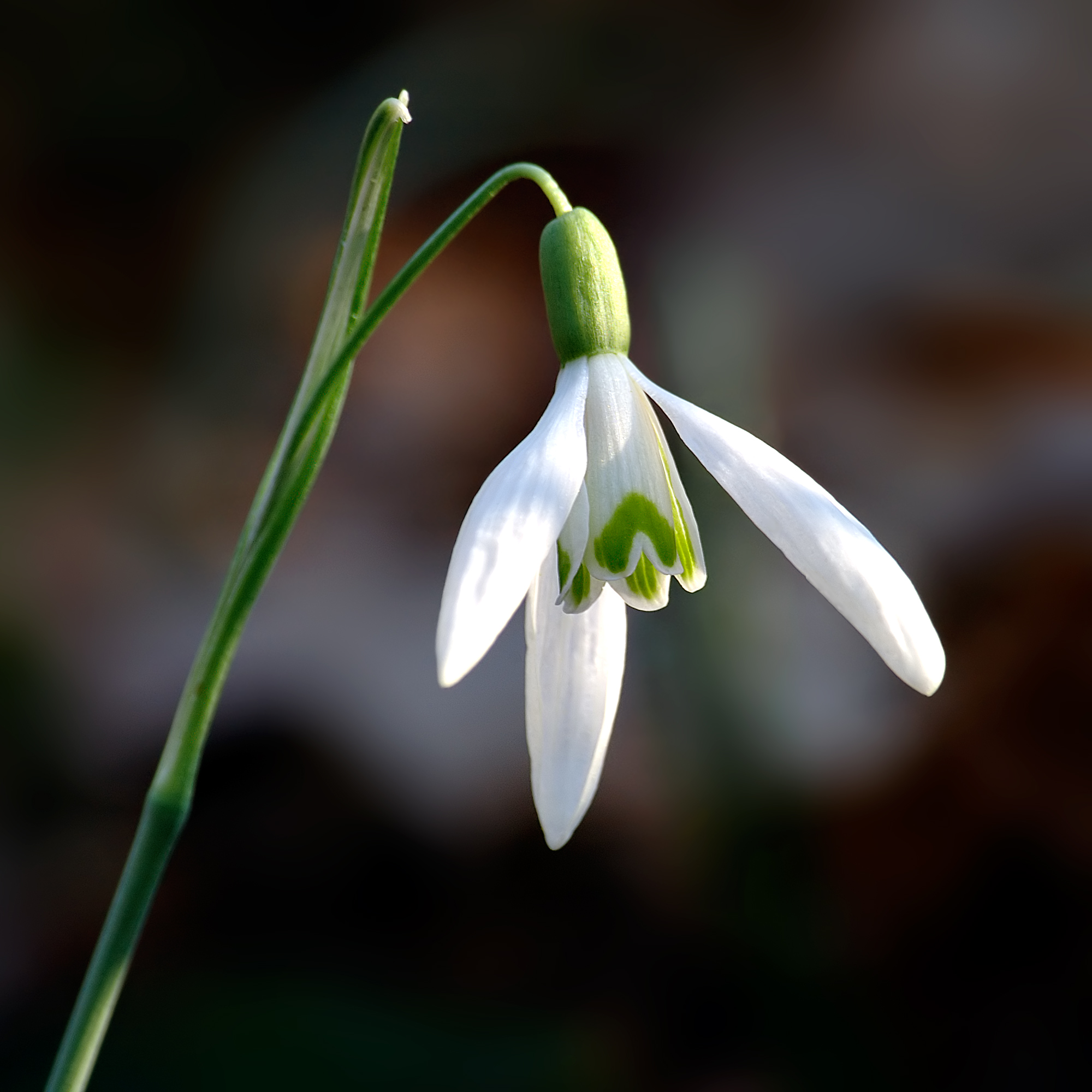 This image shows a Snowdrop Galanthus nivalis close-up.